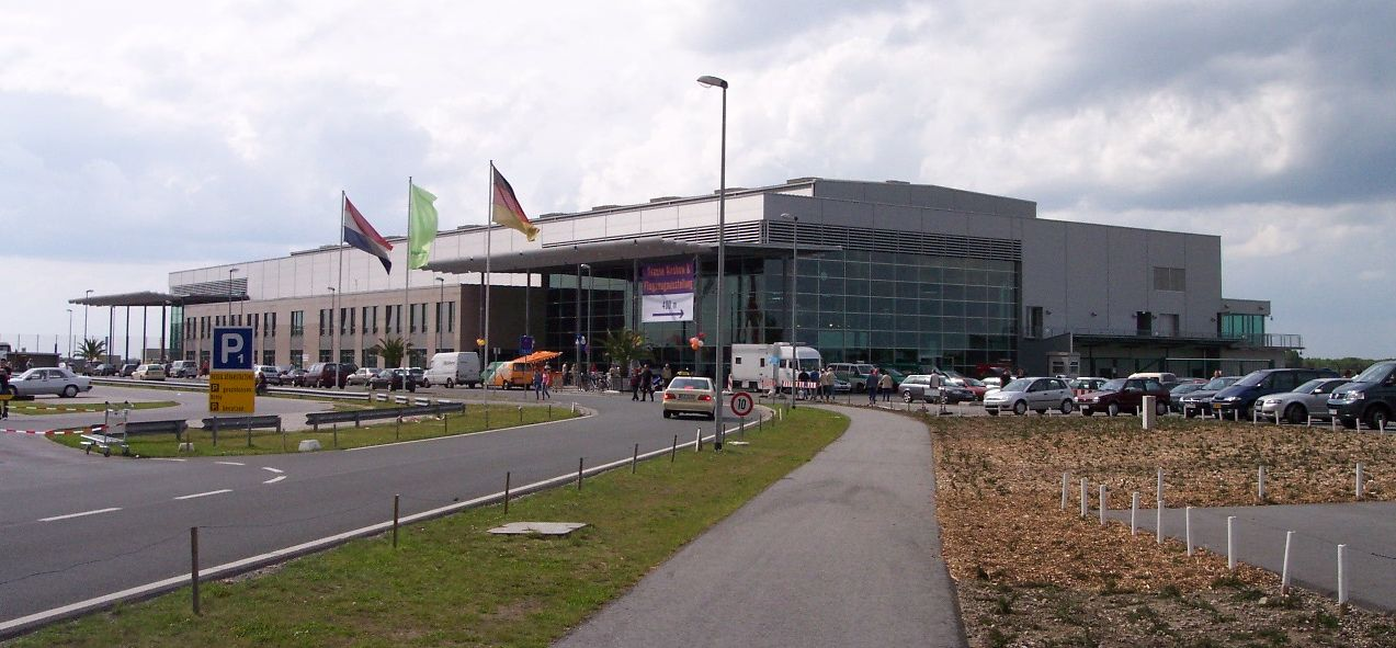 Weeze Airport Weeze